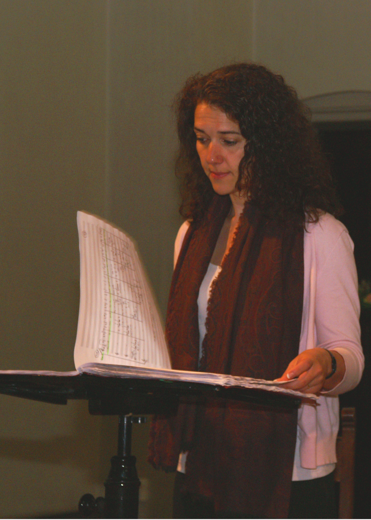 German vocalist Juliane Banse